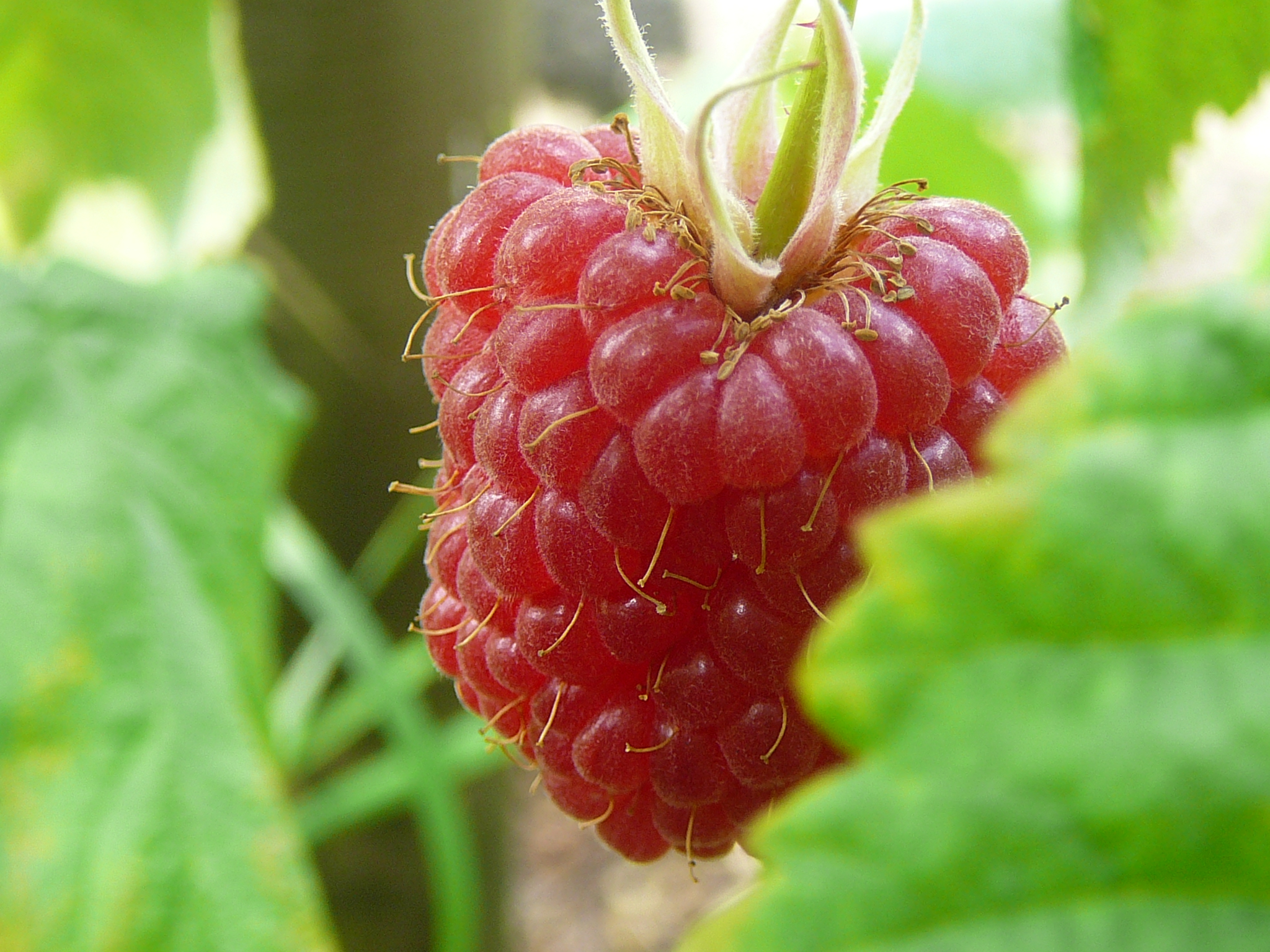 Raspberry